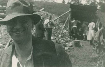 Pierre Ceresole on a workcamp in Graubünden, 1927.